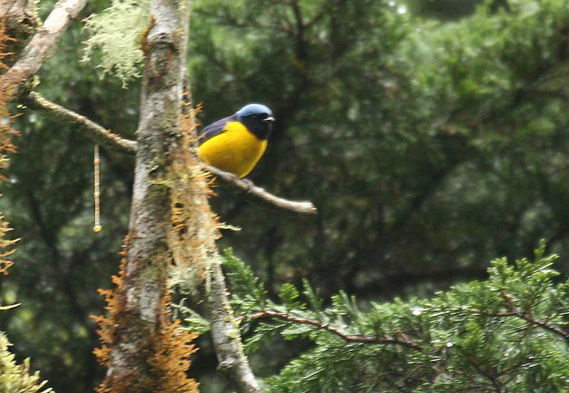 Golden-rumped Euphonia (Euphonia cyanocephala). A male at Old Nono-Mindo Rd, NW Ecuador.